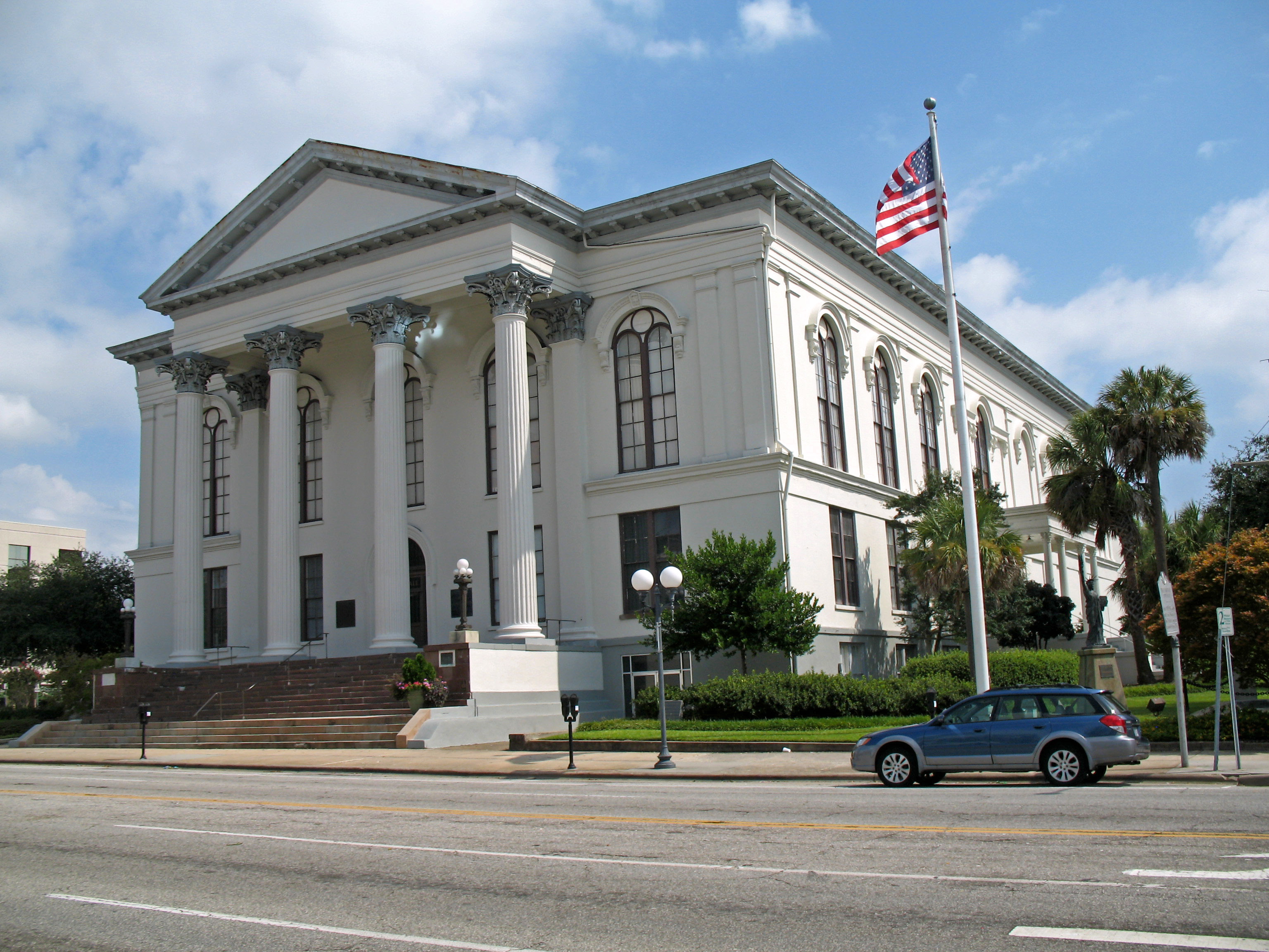 National Register of Historic Places listings in New Hanover County, North Carolina. City Hall/Thalian Hall, 100 North 3rd St, Wilmington, NC. Photographed September 20, 2009 from the southwest corner of Princess and North 3rd Sts.